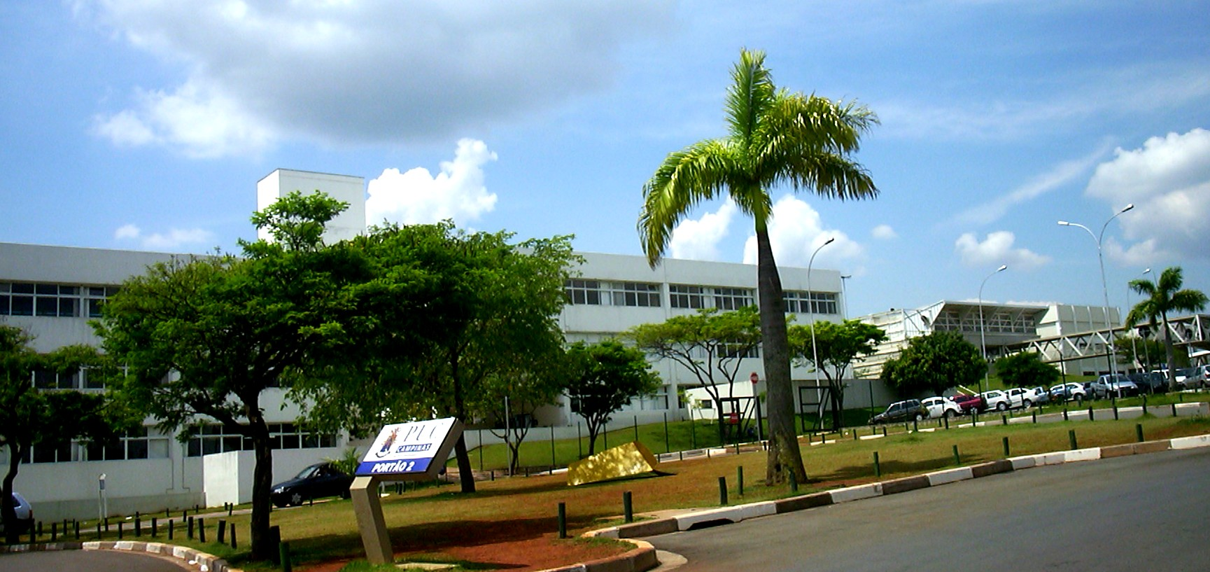 A view on the main entrance of Campus II of the Pontifical Catholic University of Campinas, in Campinas, Brazil. Author: Renato M. E. Sabbatini, 5.Nov.2005.